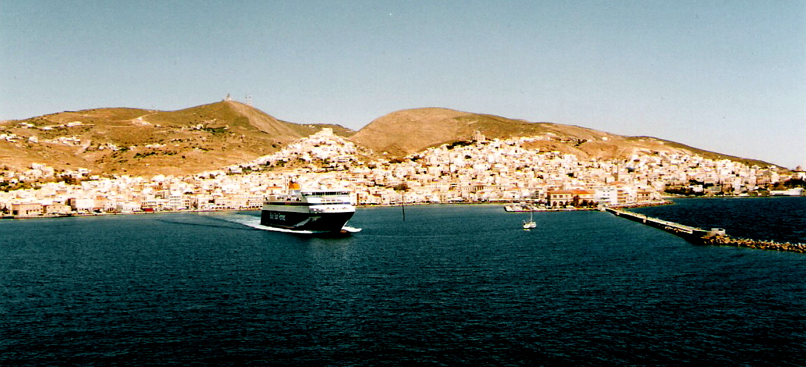 own work, Ermoupulis Syros (Greece) May 2004 by ERWEH